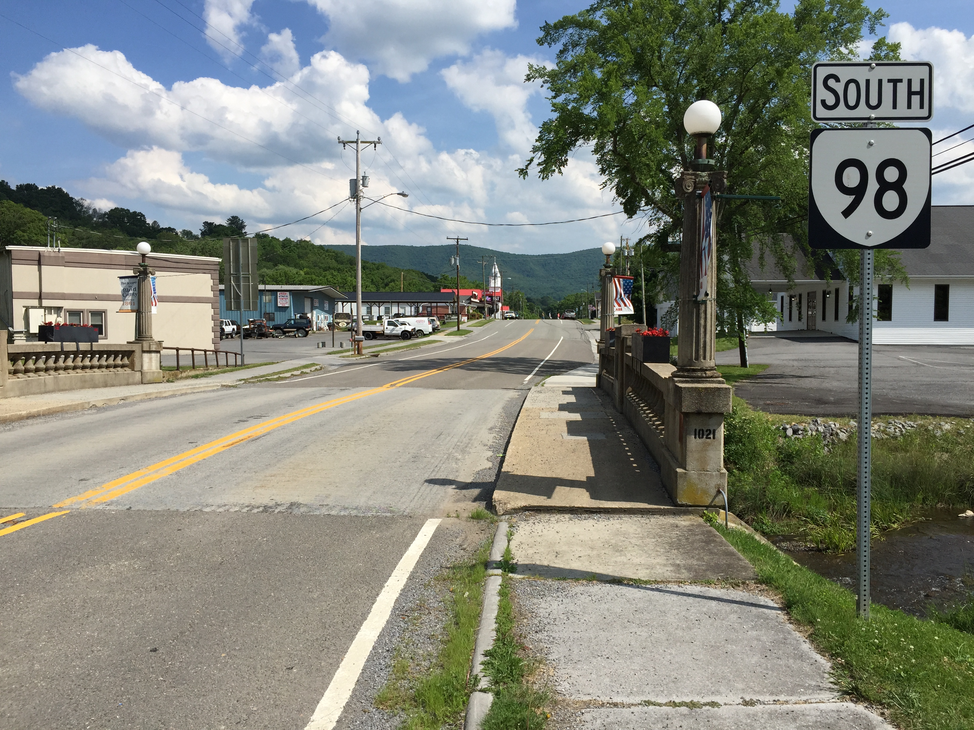 View south along Virginia State Route 98 (Main Street) at U.S. Route 52 and Virginia State Route 42 in Bland, Bland County, Virginia